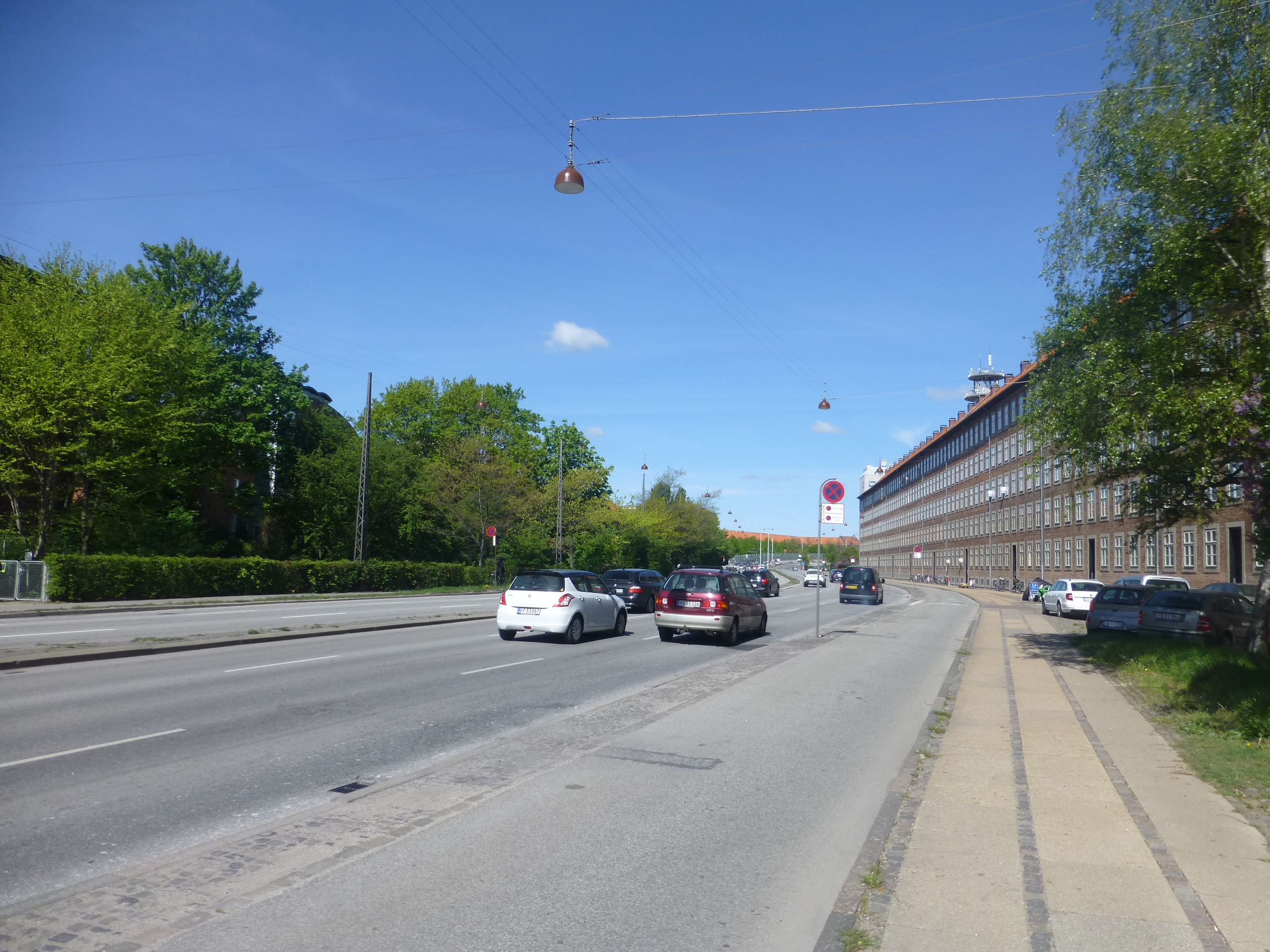 The street Ågade in Nørrebro in Copenhagen.